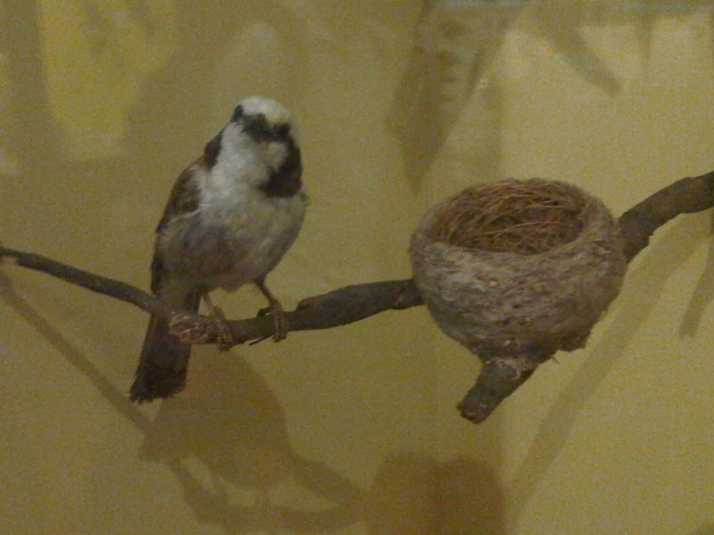 Taxidermied Northern White-crowned Shrike or White-rumped Shrike (Eurocephalus rueppelli) with nest at the Natural History Museum in London, England.